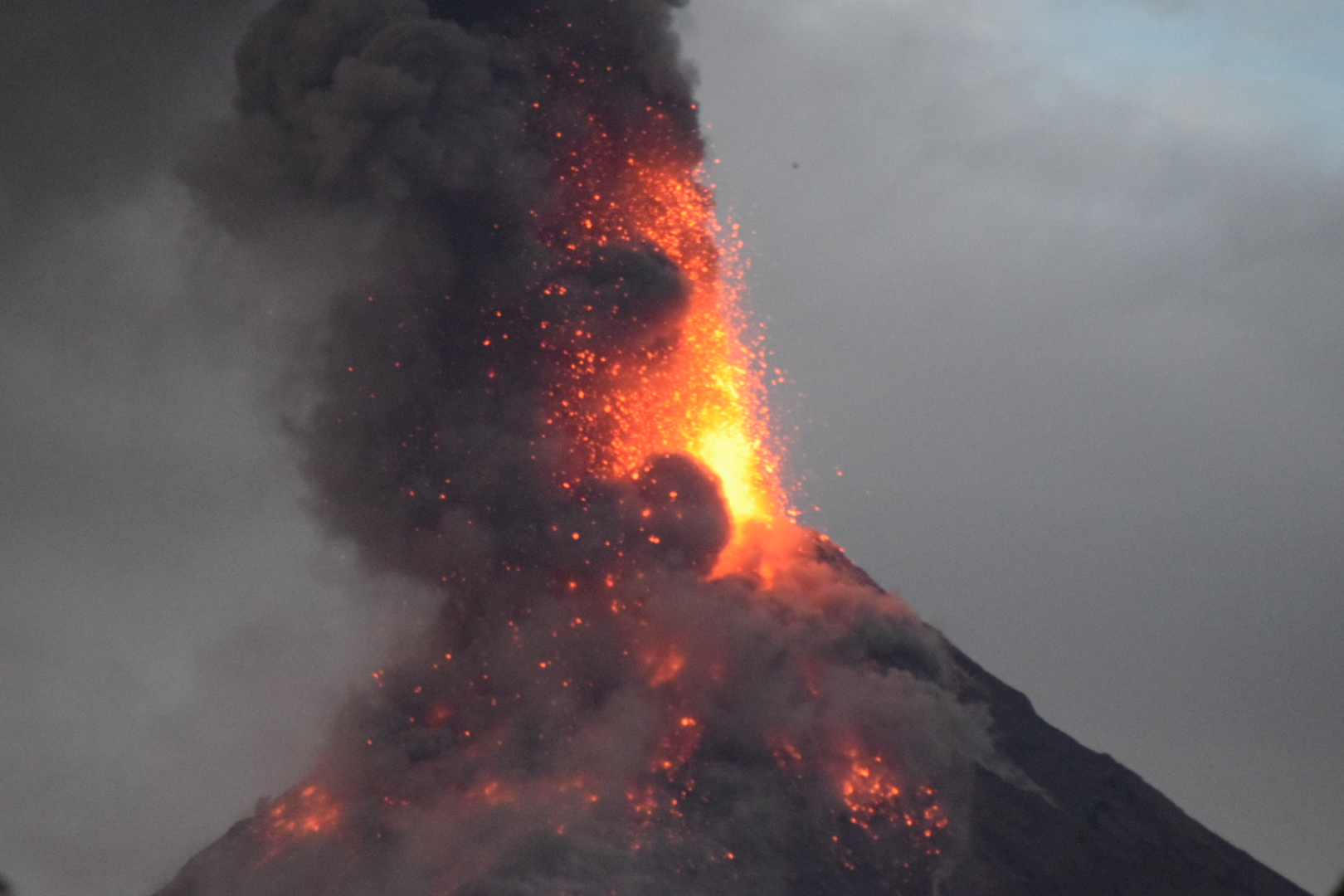 Mayon eruption last jan 2018